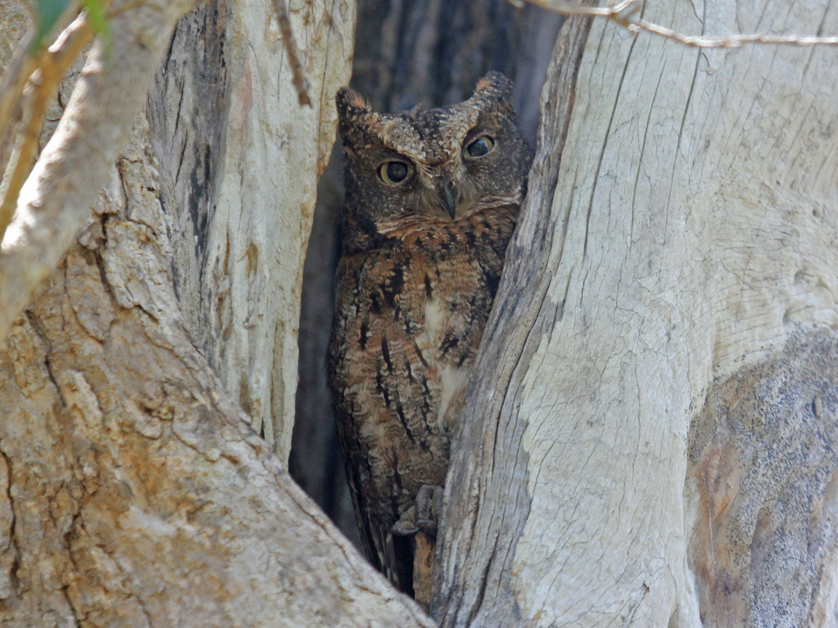 Madagascar Scops-Owl, also known as Malagasy Scops-Owl, also known as Rainforest Scops-Owl (Otus rutilus). Photographed in Kirindy Forest, Madagascar.